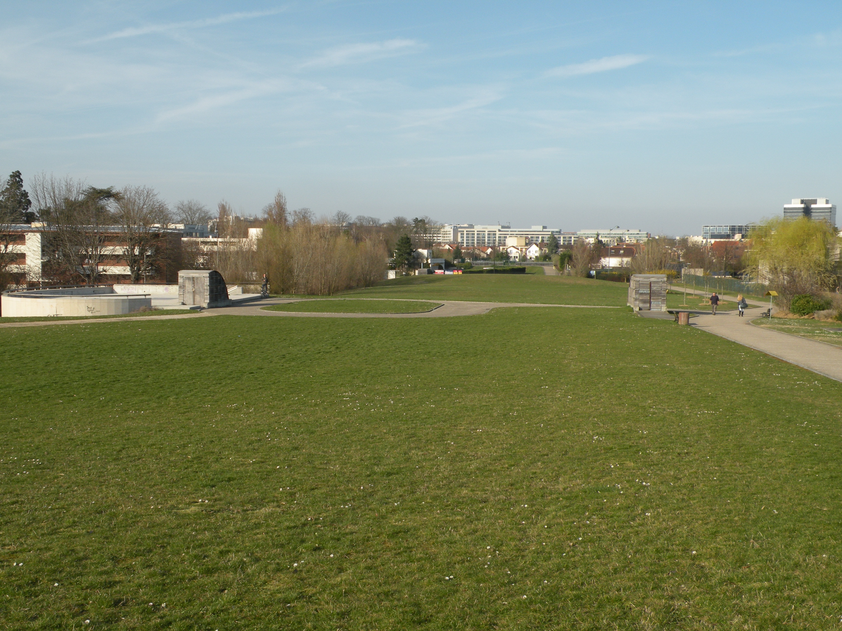 Covered part of the A86 autoroute in Rueil-Malmaison.